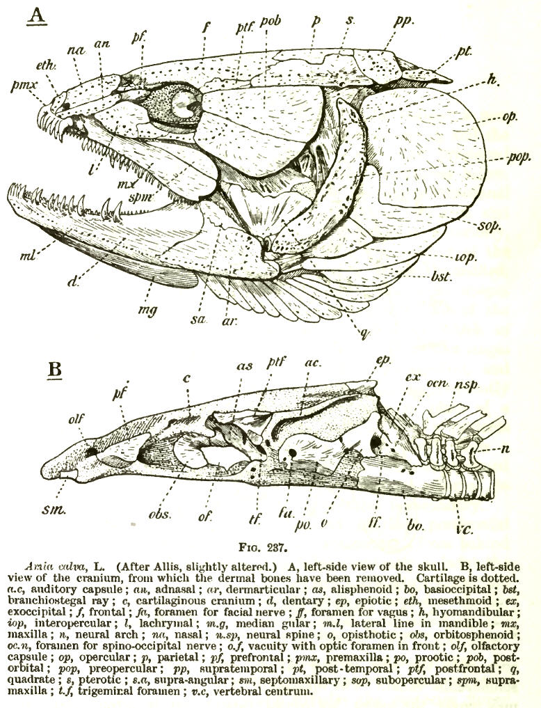 Amia calva head. Caption: Amia calva L. (After Allis 1897, slightly altered) A, left-side view of the skull. B, left-side view of the cranium, from which the dermal bones have been removed. Cartilage is dotted. a.c, auditory capsule ; au, , adnasal ; ar, dermarticular ; as, alisphenoid ; bo, basioccipital ; bst, branchiostegal ray ; c, cartilaginous cranium ; d, dentary ; ep, epiotic ; eth, mesethmoid ; ex, exoccipital ; f, frontal ; fa, foramen for facial nerve ; ff, foramen for vagus ; h, hyomandibular ; iop, interopercular ; l, lachrymal ; m.g. median gular ; m-l- lateral line in mandible; mx, maxilla ; n, neural arch ; na, nasal ; n.sp, neural spine ; o, opisthotic ; obs, orbitospenoid ; oc. n, foramen for spin-occipital nerve ; o.f. vacuity with optic foramen in front ; olf, olfactory capsule ; op, opercular ; p, parietal ; pf, prefrontal ; pmx, premaxilla ; po, prootic ; pob, postorbital ; pop, preopercular ; pp, supratemporal ; pt, post-temporal ; ptf, postfrontal ; q, quadrate ; s, pterotic ; s.a, supra-angular ; sm, septomaxiliary ; sop, subopercular ; spm, supra-maxilla ; t.f, trigemical foramen ; v.c. vertebral centrum.